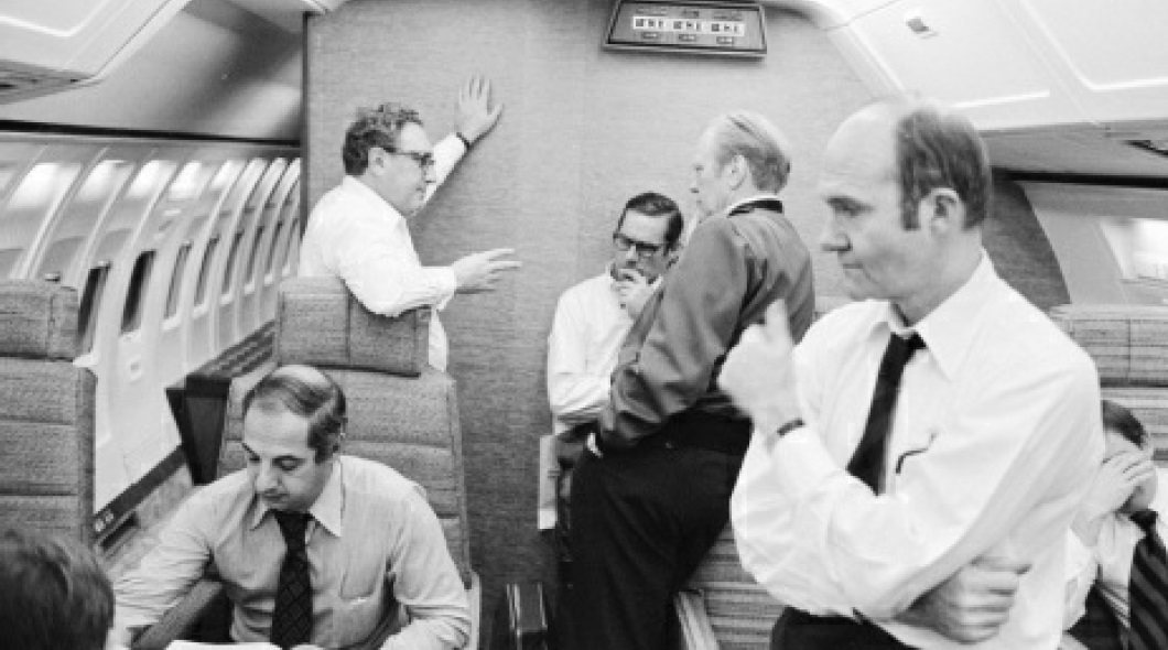 U.S. National Security Advisor Lieutenant General Brent Scowcroft with President Gerald Ford and Secretary of State Henry Kissinger on-board Air Force One en-route to the International Economic Summit in Rambouillet, France on November 17, 1975.